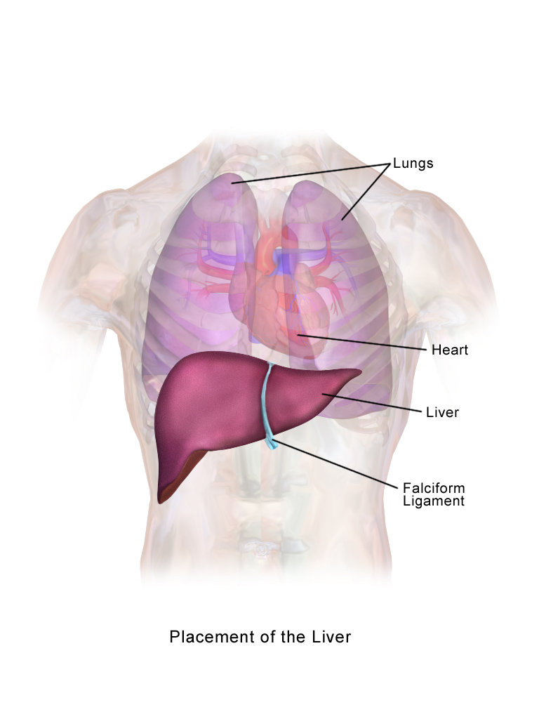 Placement of the Liver. See a full animation of this medical topic.